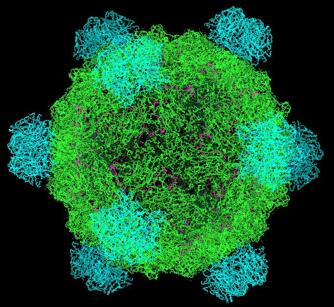 Model structure of bacteriophage phi X 174. Generated from PDB entry 2BPA